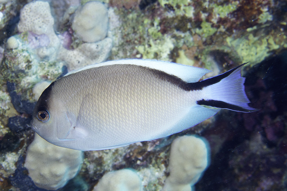 Genicanthus caudovittatus female, Egypt.